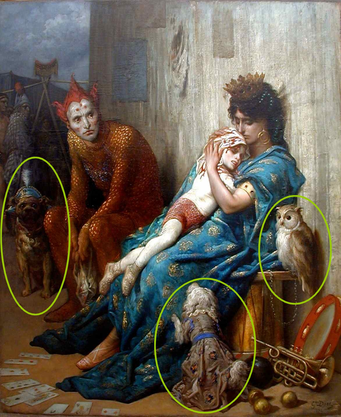 Gustave Doré (french painter), Les Saltimbanques [Magicians], 1874. Location : Musée d'art Roger-Quilliot, Clermont-Ferrand. Type : oil painting. Dimensions : 224 x 184 cm (88 X 72 in).